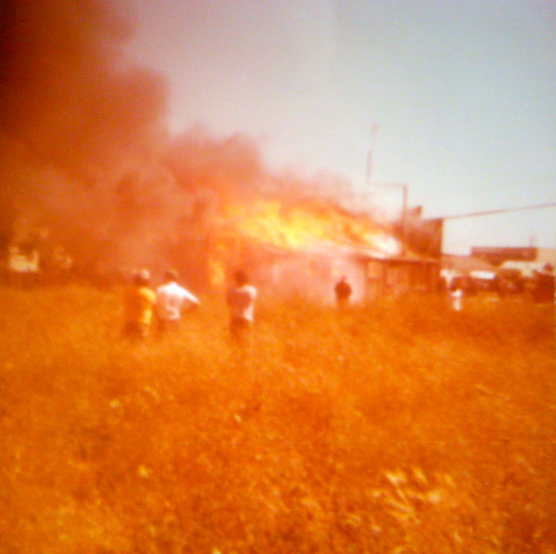 Western Building, Rear View of Fire